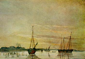 Schooners of Aral expedition, Kos-Aral